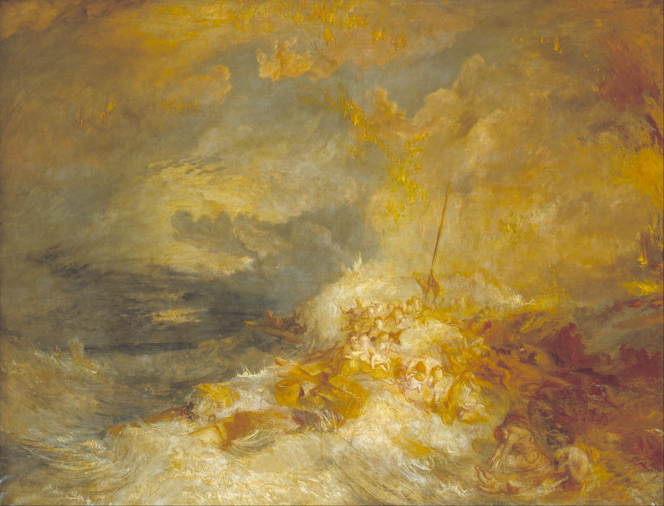 Probably unfinished